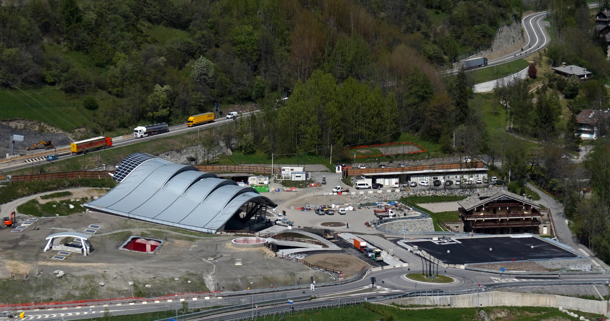 Pontal d’Entréves cable car station.This photograph was taken with a Sony ILCE-5000